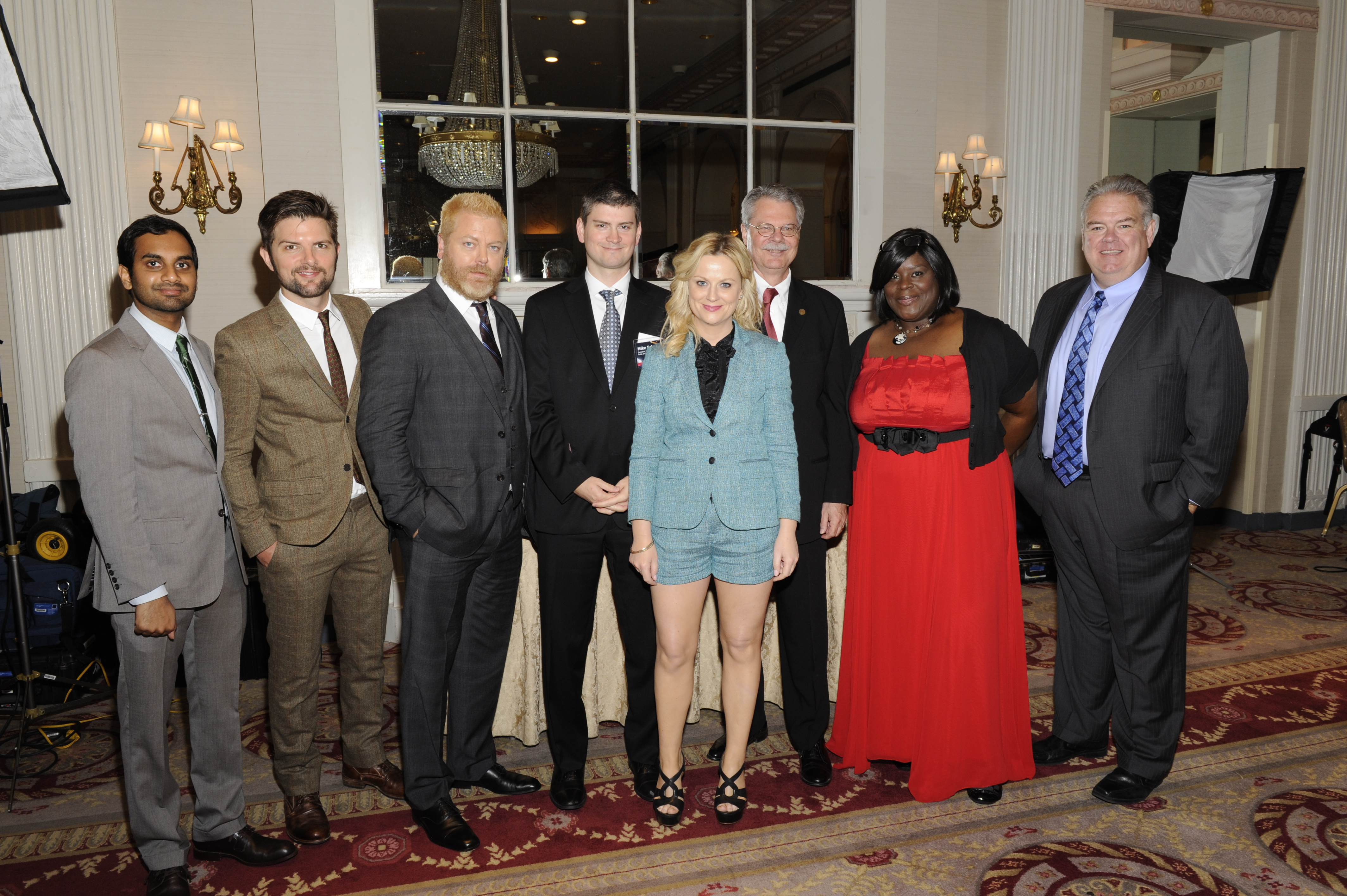 PHOTO CREDIT: ANDERS KRUSBERG / PEABODY AWARDS Aziz Ansari, Adam Scott, Nick Offerman, Mike Schur, Amy Poehler, Horace Newcomb, Retta and Jim O'Heir. 71st Annual Peabody Awards Luncheon Waldorf=Astoria Hotel May 21, 2012